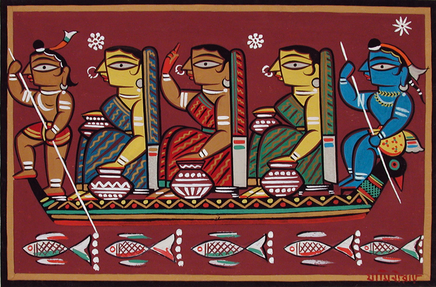 Display Artist: Jamini Roy Creation Date: ca. 1920 Display Dimensions: 16 1/16 in. x 23 15/16 in. (40.8 cm x 60.8 cm) Credit Line: Edwin Binney 3rd Collection Accession Number: 1990.1458 Collection: The San Diego Museum of Art